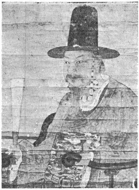 portrait of King Seonjo of Joseon, wear is a soldier's felt hat. possession to Yun Tak-yon(1538~1594), one of politician of Korean Joseon Dynastys, Count of Chilkye and Duke of Heonmin.